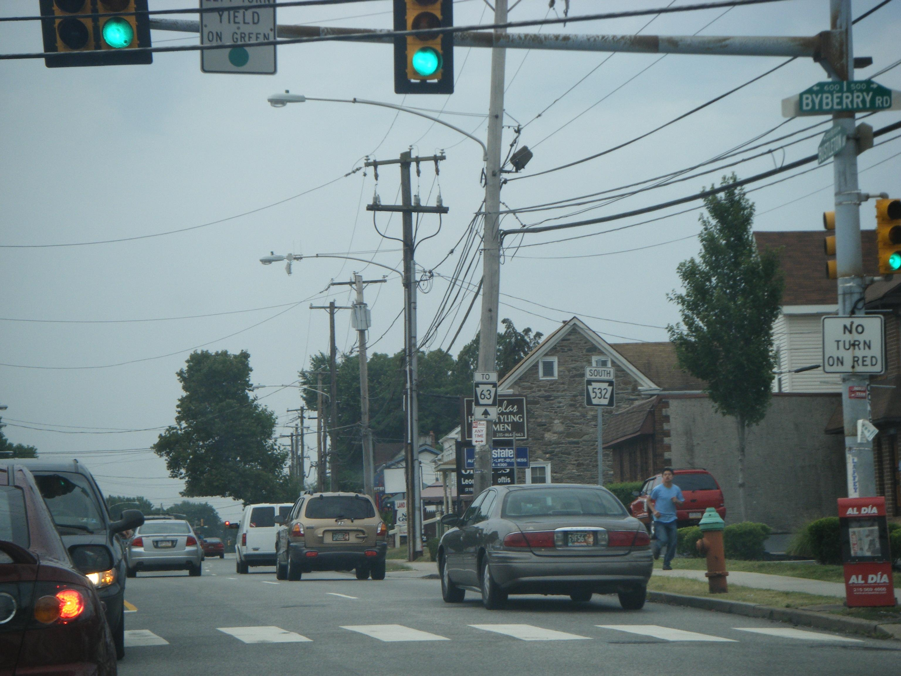 Southbound Pennsylvania Route 532 (Bustleton Avenue) past the intersection with Byberry Road in the Somerton neighborhood of Philadelphia, Pennsylvania